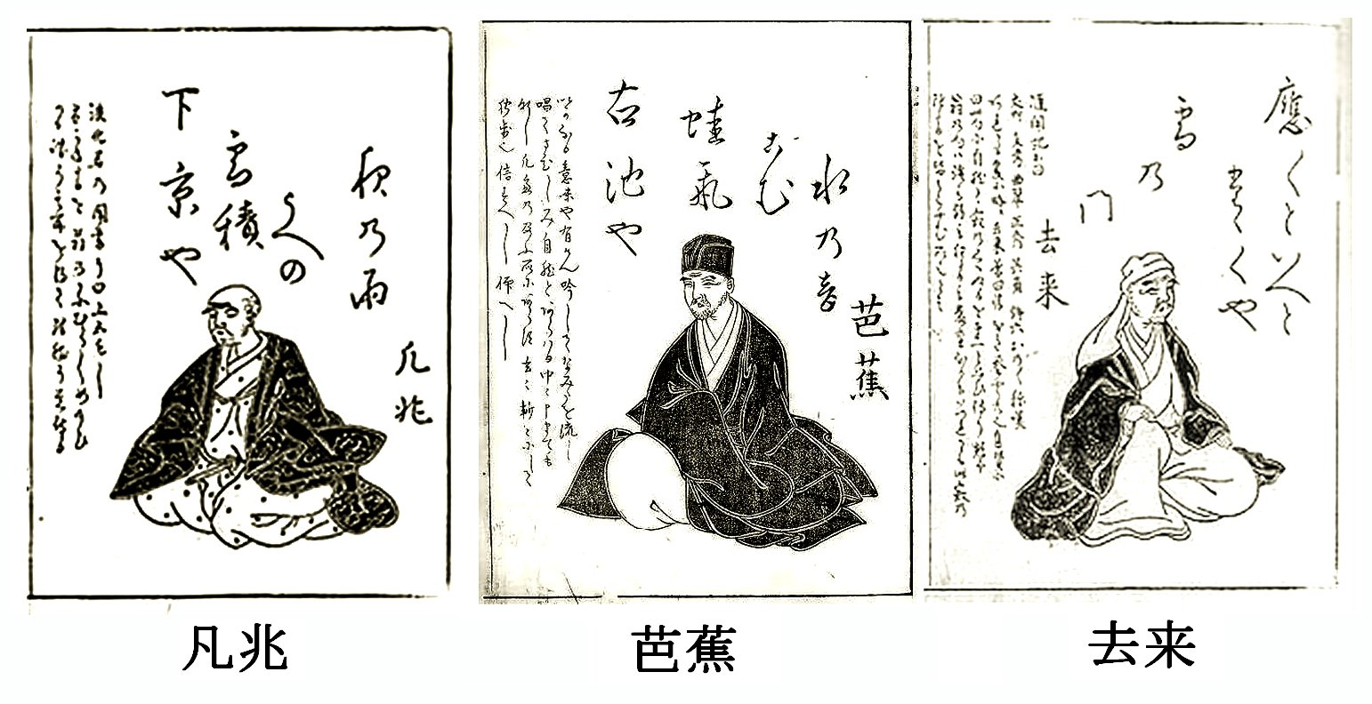 凡兆 — Nozawa Bonchō (1640 — 1714) 芭蕉 — Matsuo Bashō (1644 — 1694) 去来 — Mukai Kyorai (1651 — 1704) 3 Japanese haikai poets, authors of kasen-renga 市中は (いちなかは) — Ichinaka wa ("In the Town" or "The Summer Moon") 1690 Collage by Dmitri N. Smirnov made of the old Japanese prints